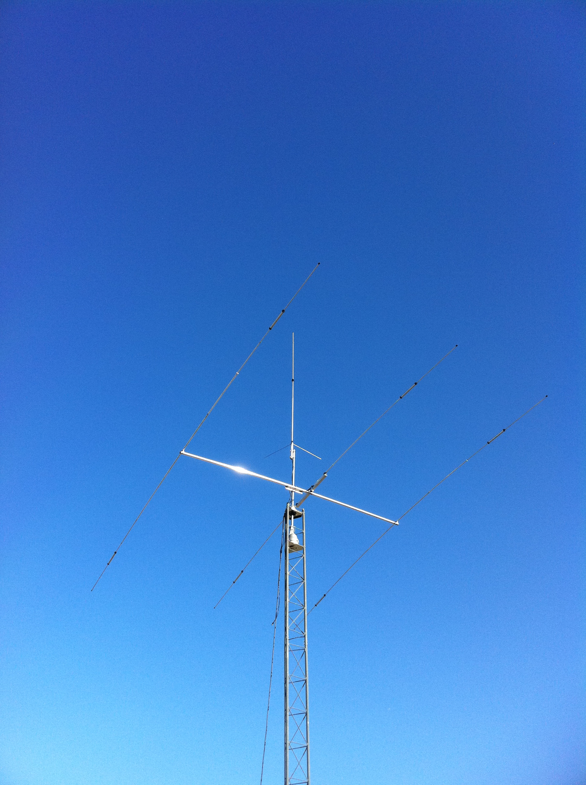 Ham Radio Antenna